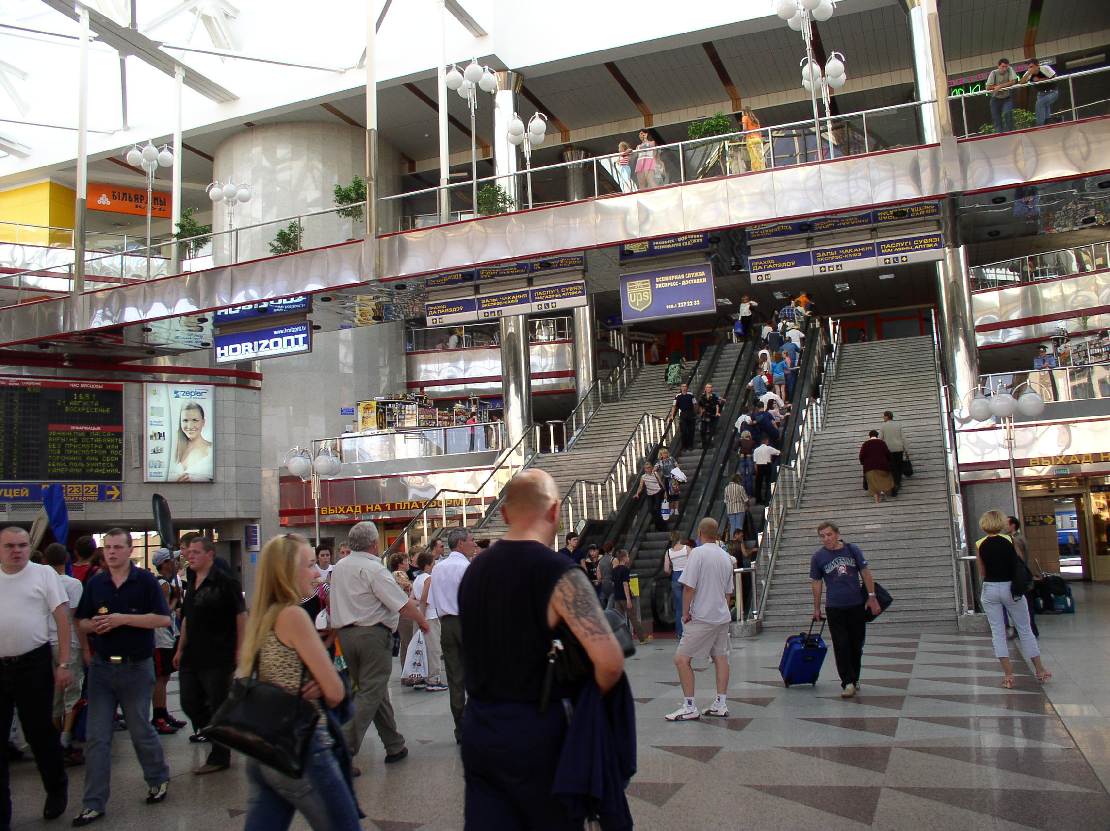 Inside new railway station. Minsk, Belarus.